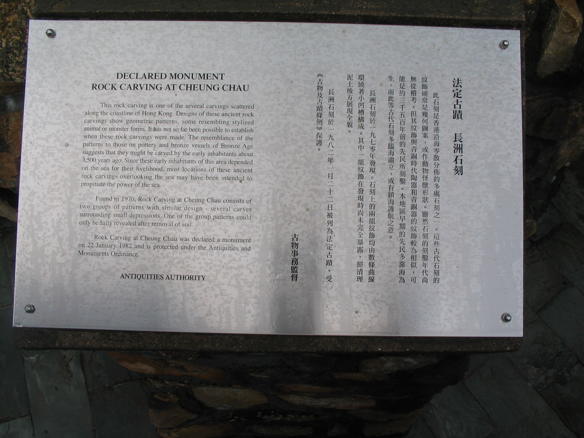 Photo of Cheung Chau Rock Carving